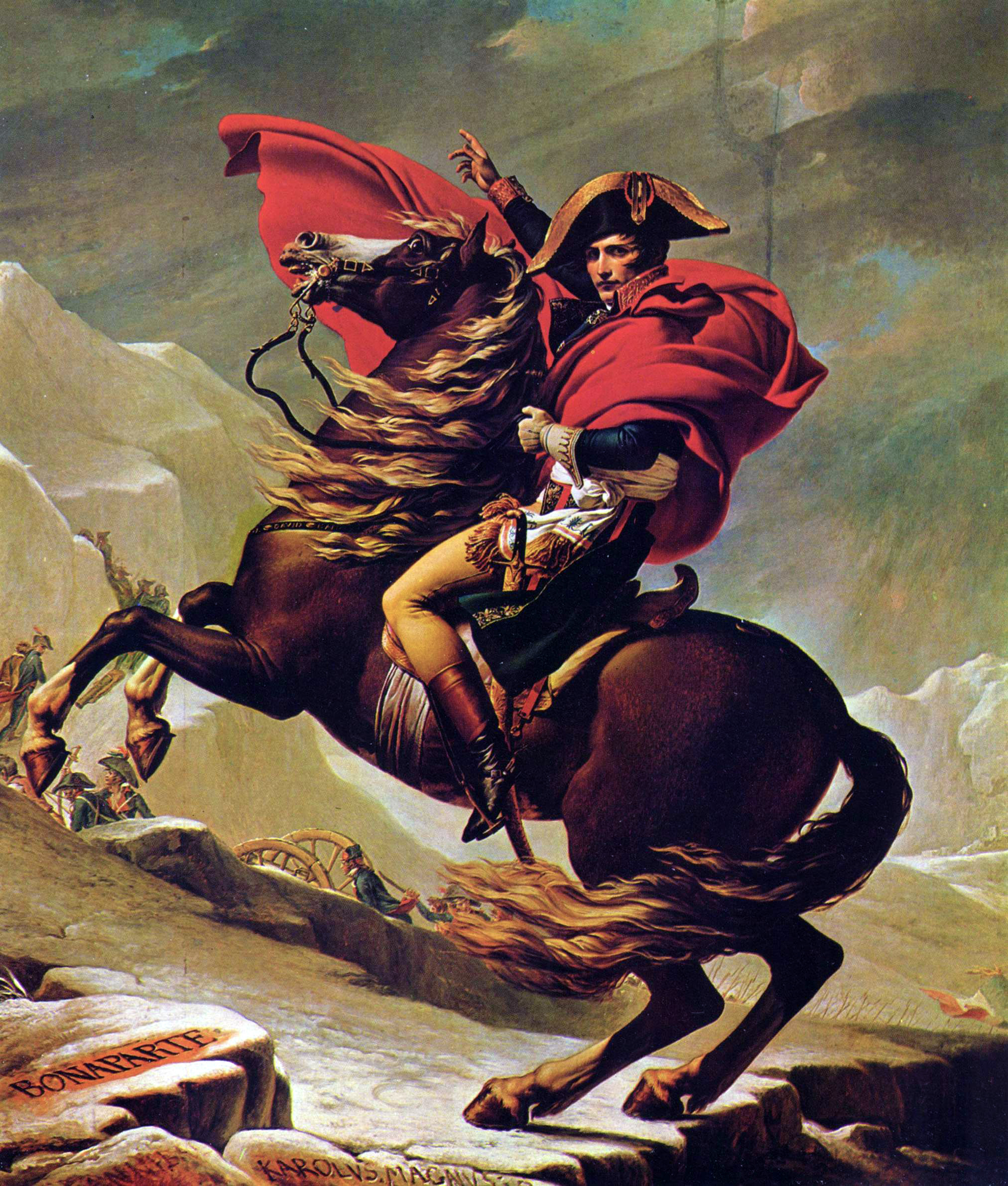 Napoleon in a red cloak mounted on a chestnut horse. The tack is simpler than in the original version, lacking the martingale, and the girth is grey-blue. There are traces of snow on the ground. Napoleon's features are sunken with the faint hint of a smile.